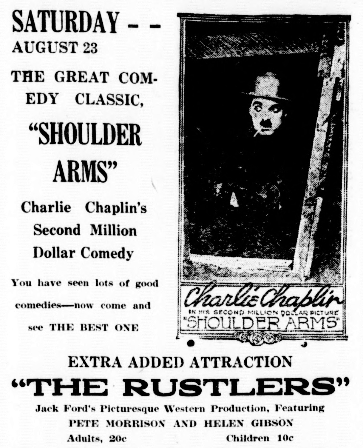 Shoulder Arms with The Rustlers